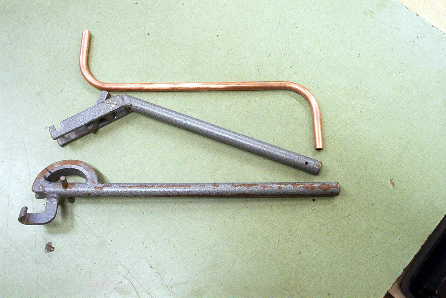 Two parts tube bender.